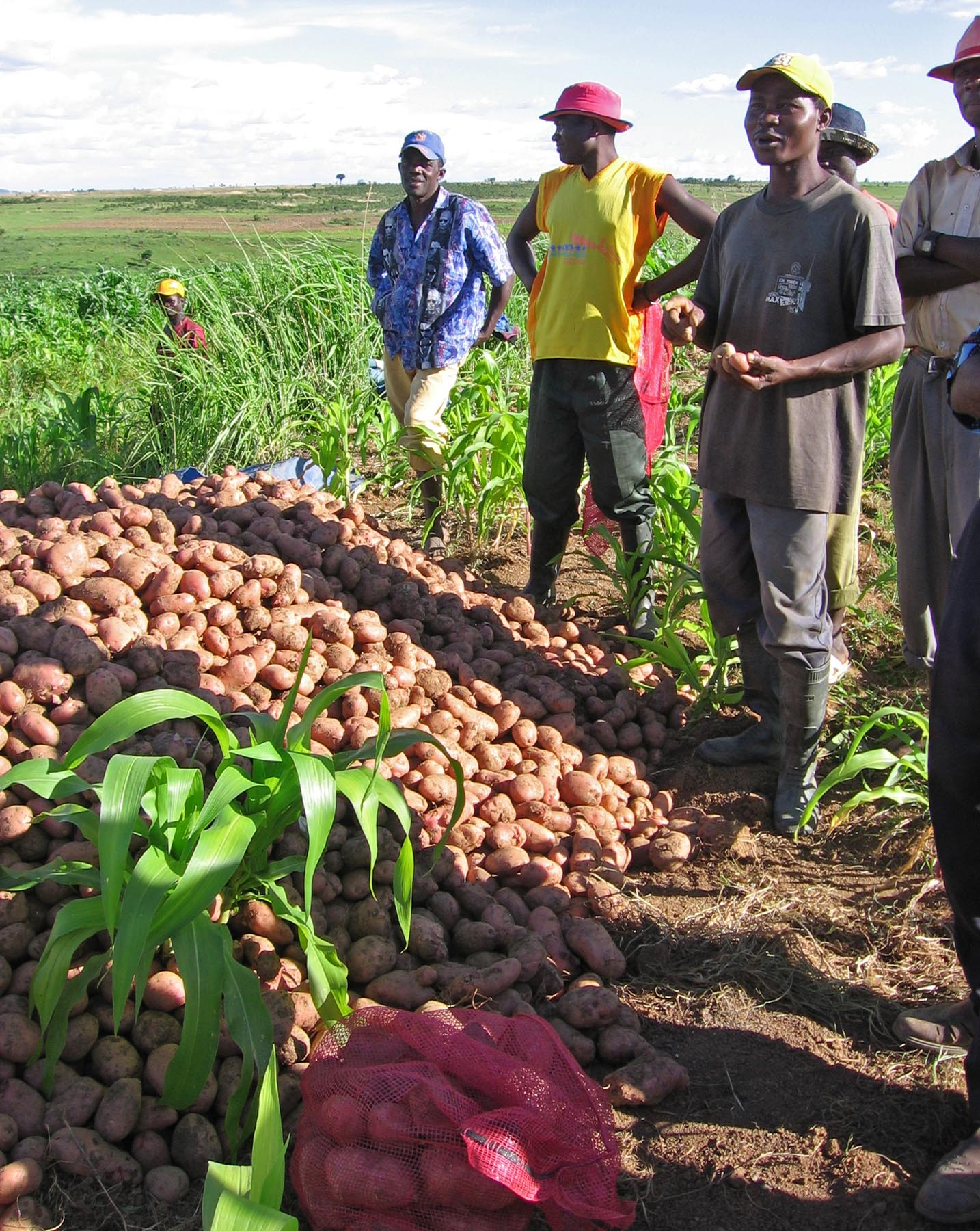 Farmers in Huambo who have received loans for production of improved varieties of Irish potato. USAID-supported agricultural programs have assisted farmers in growing various types of Irish potatoes, improving their crop production and their incomes. (C. Hamlin/USAID)